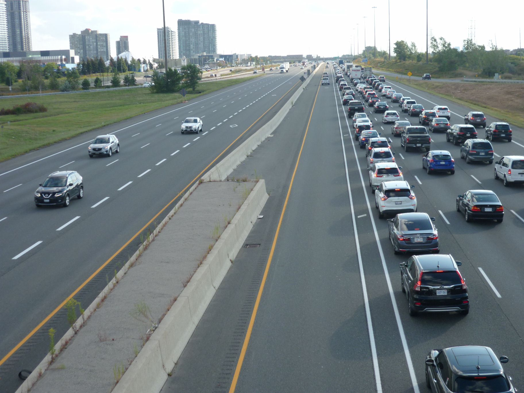 Median barrier on HWY403. Mississauga, ON